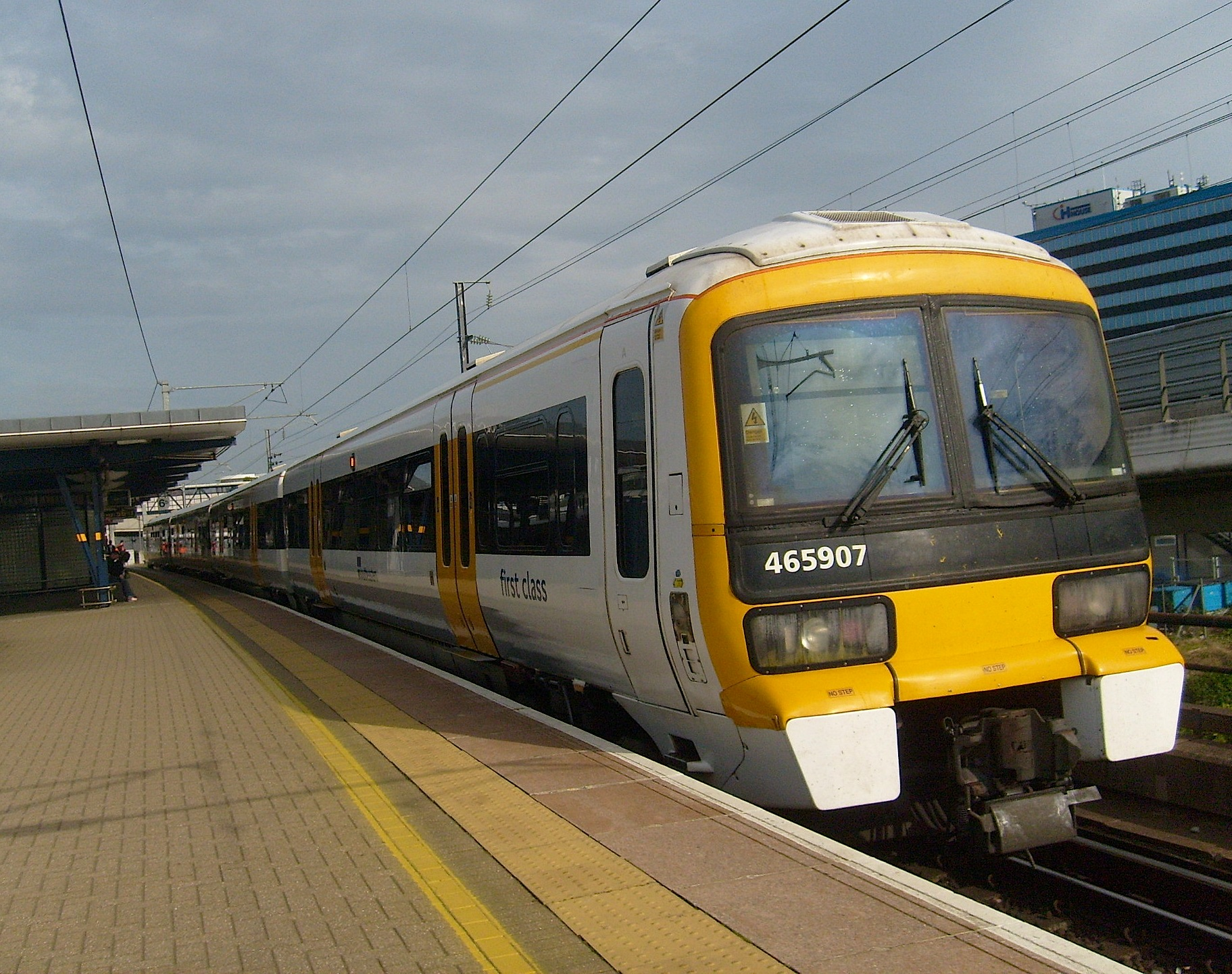 Southeastern trains refreshed Class 465/9 'Networker Weald' EMU No. 465907 at Ashford International.